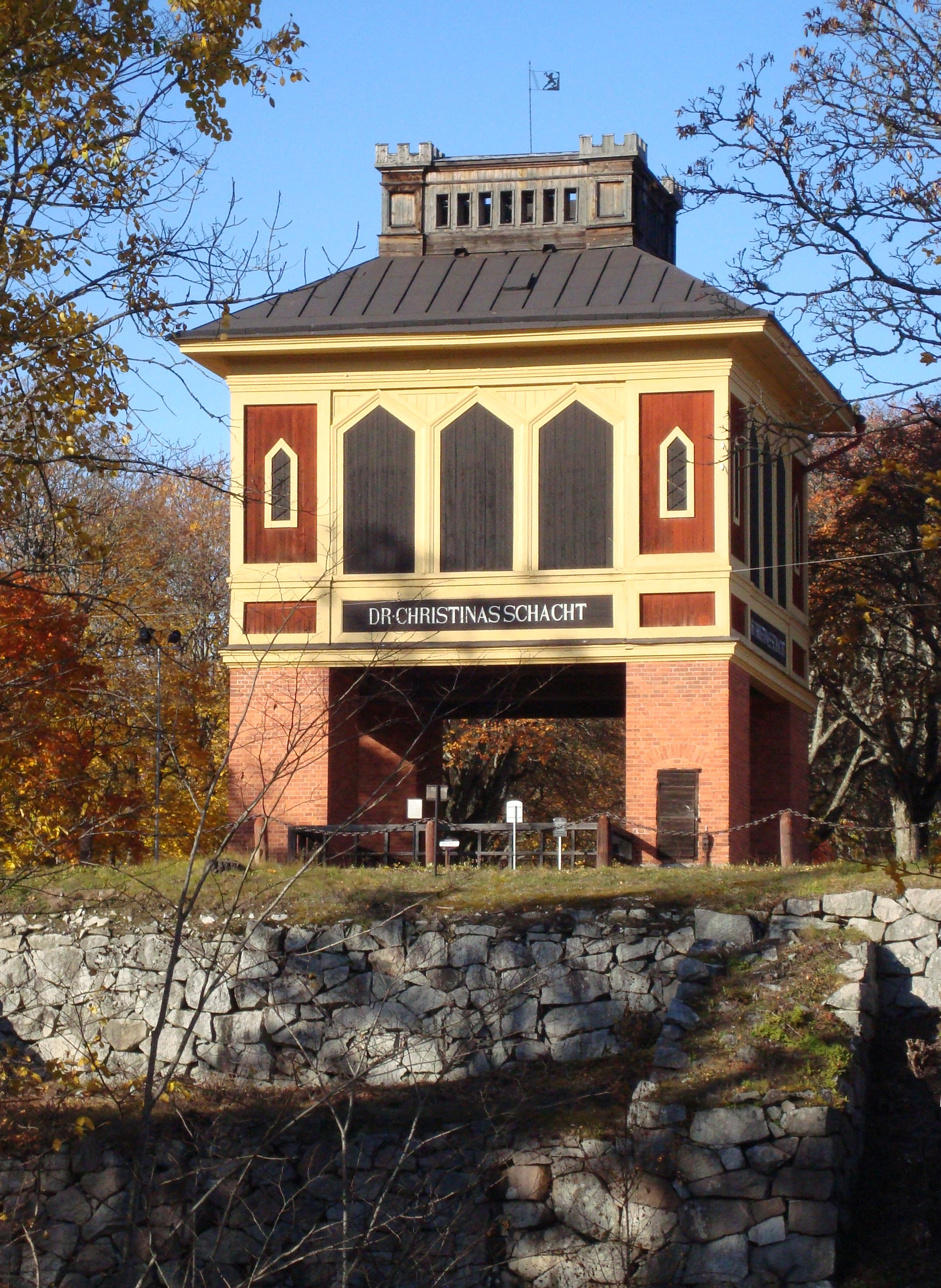 Sala silvermine